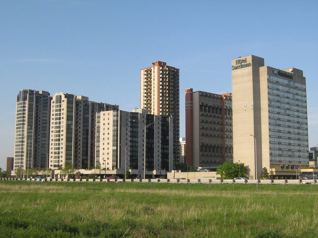 Skyline of Longueuil, Quebec. Photo taken by Cataclaw at 4:00PM, May 23rd, 2007.